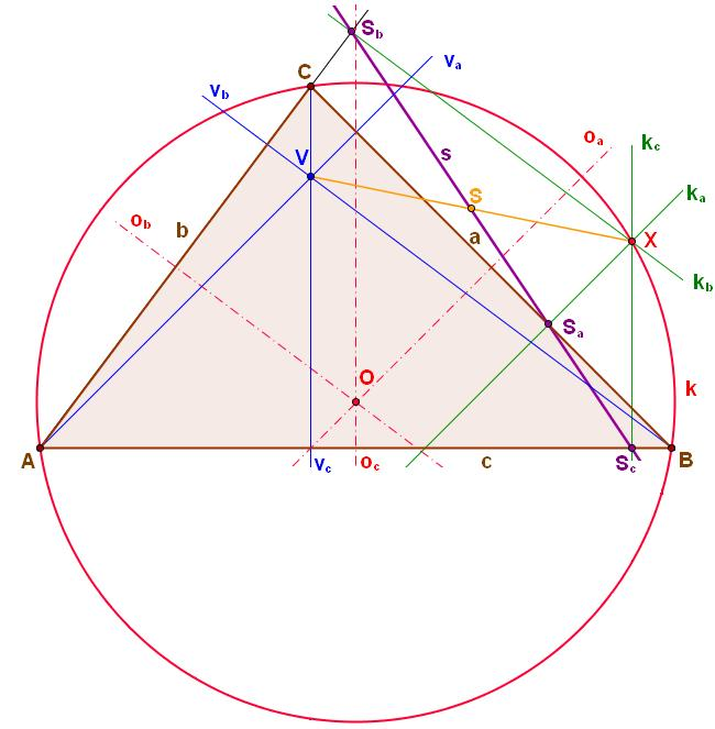 The circumcircle and the Simson line: ΔABC a, b, c – sides oa, ob, oc – perpendicular bisectors, O – intersection of the perpendicular bisectors (circumcenter), X – random circumcircle point ka, kb, kc – perpendiculars to sides, including the X point Sa, Sb, Sc – intersections of sides and ka, kb, kc perpendiculars s – Simson line va, vb, vc – altitudes, V – orthocenter, S – center of the VX line segment